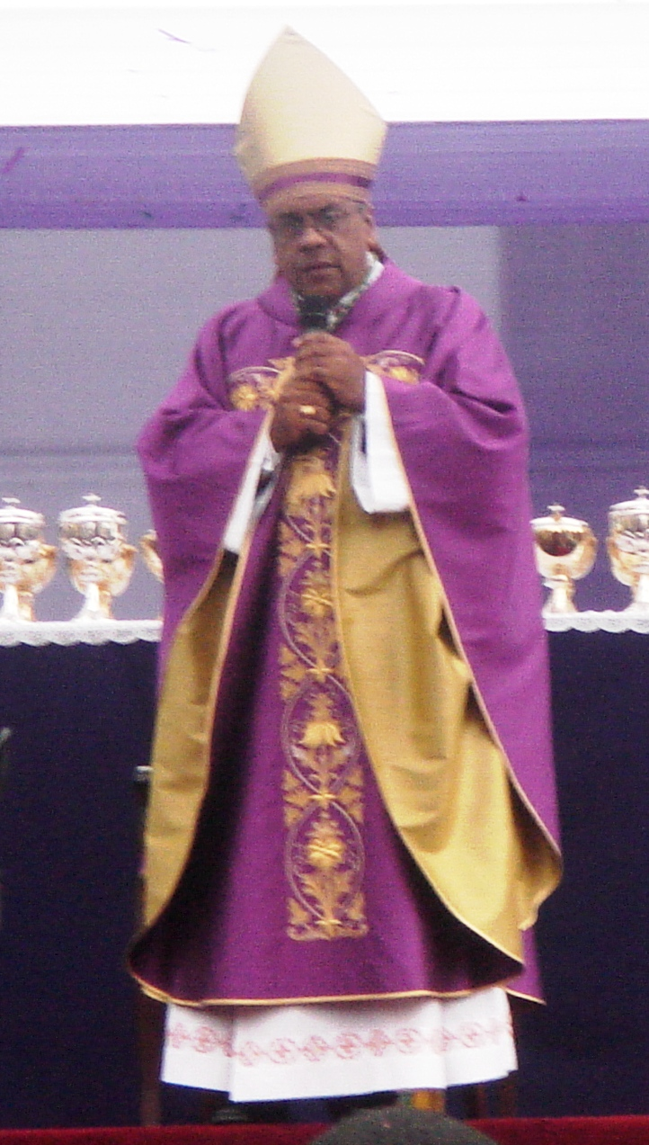 Bishop Mons. Carlos García Camader, during mass before Lord of Miracles Procession. Lima, 2008.